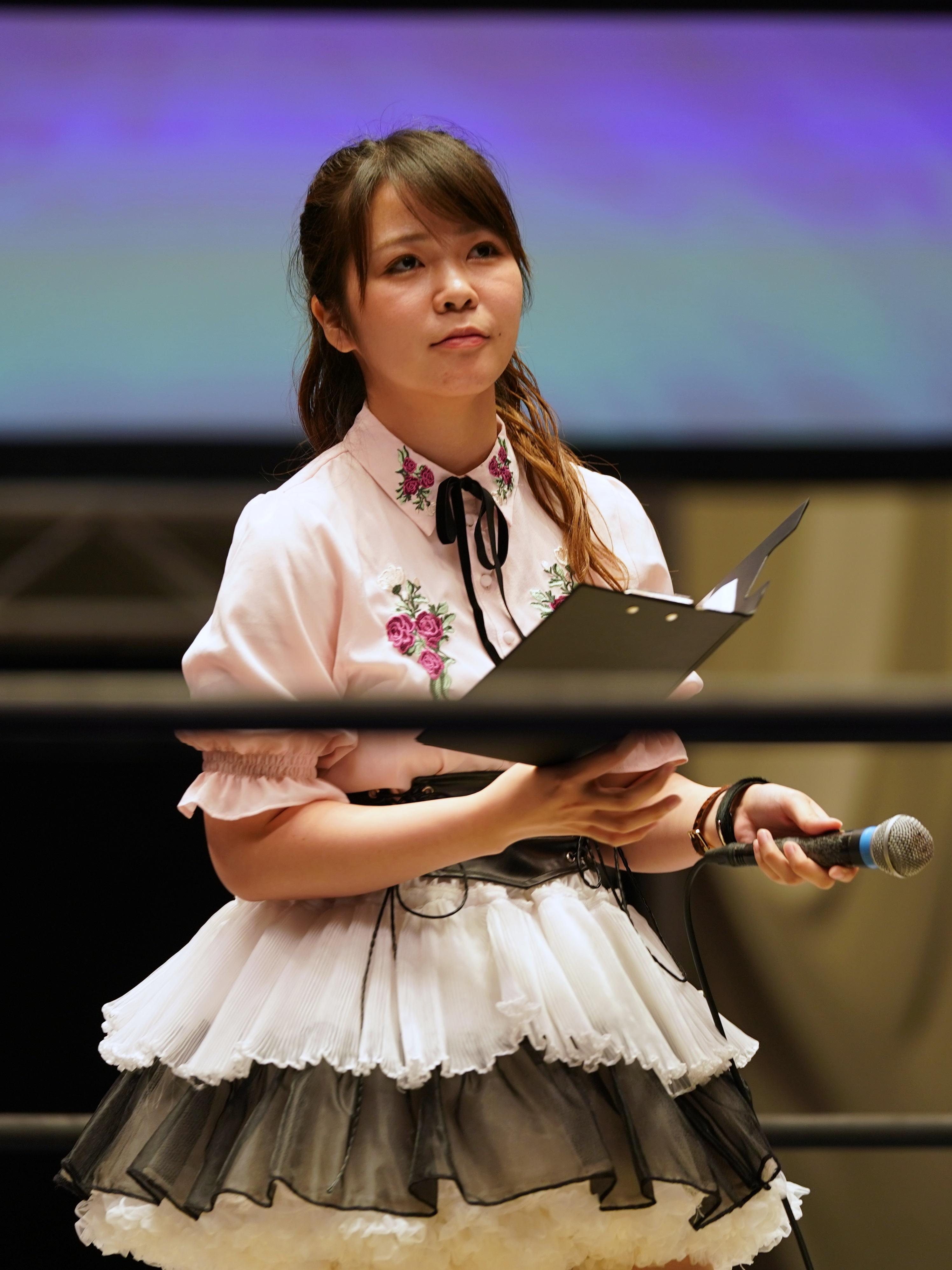 Yuki Aino (August 26, 2017 at Korakuen Hall)